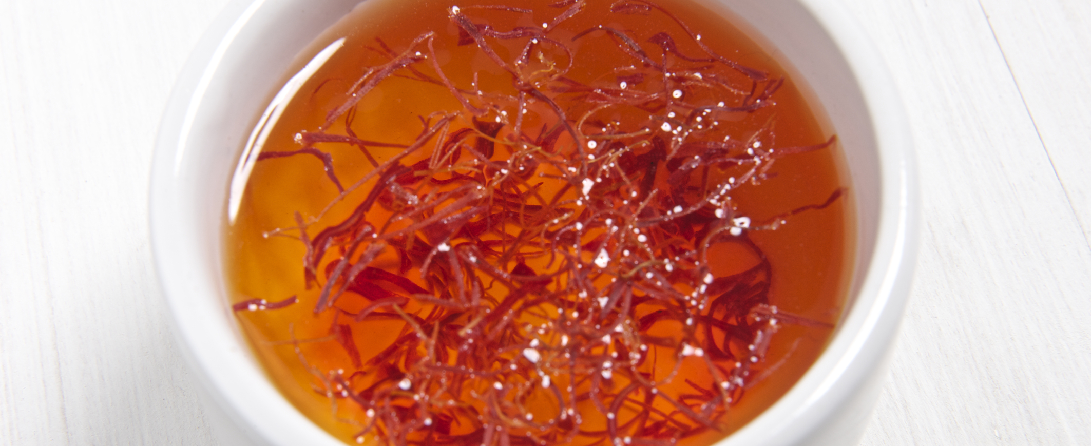 Saffron soak